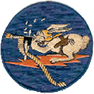 Emblem of the 376th Fighter Squadron (World War II)